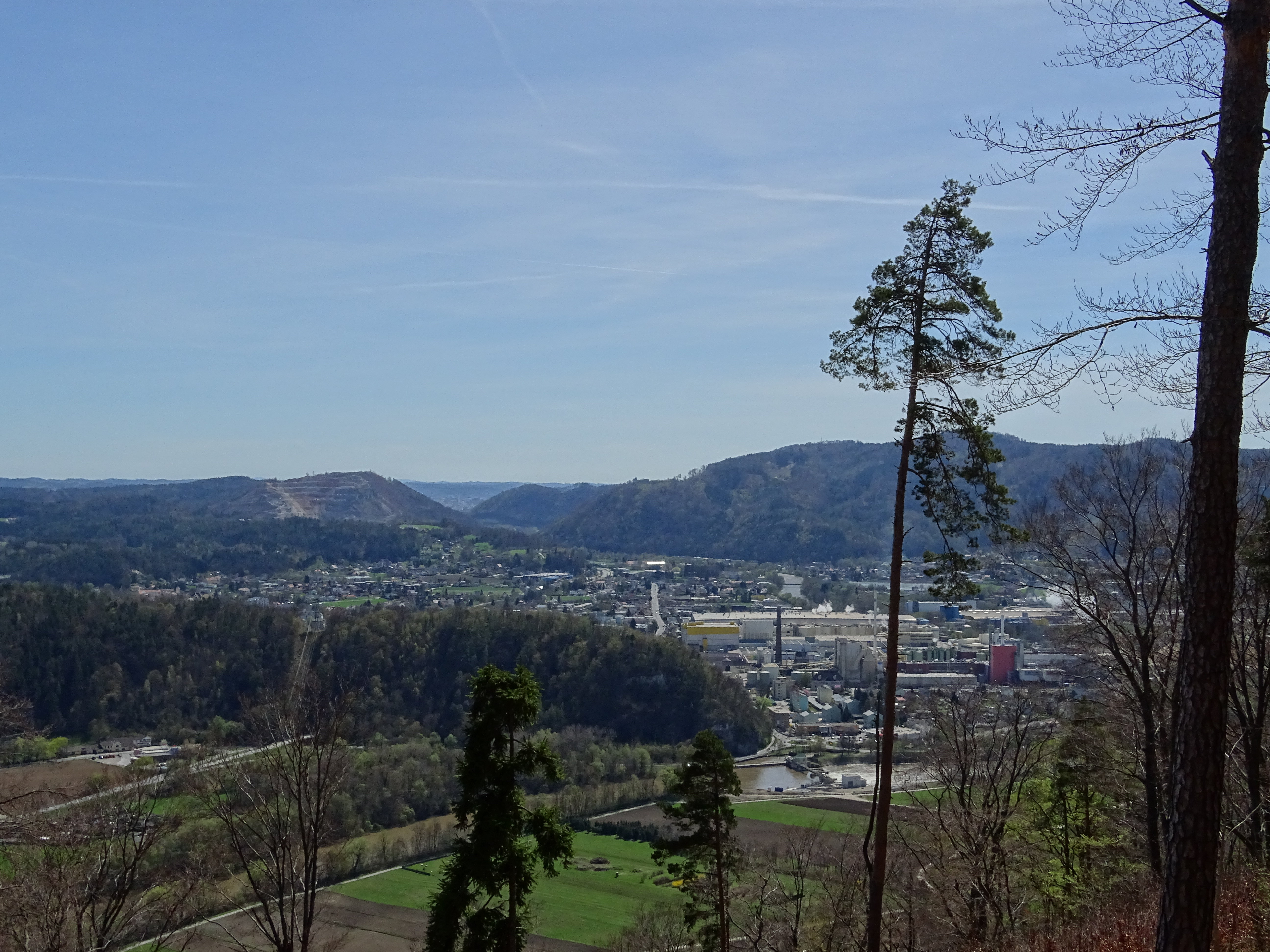 View from the Gsollerkogel to Gratkorn